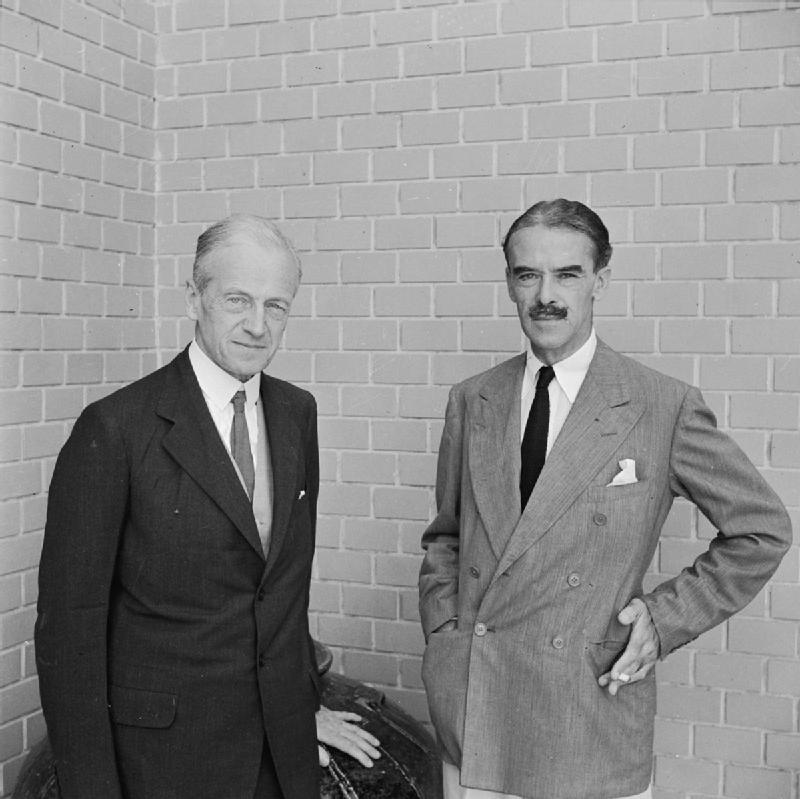 British Political Personalities 1936-1945 The Churchill Coalition Government 11 May 1940 - 23 May 1945: R G Casey Minister of State resident in the Middle East from March 1942 to December 1943 (right) with Lord Moyne in Cairo.